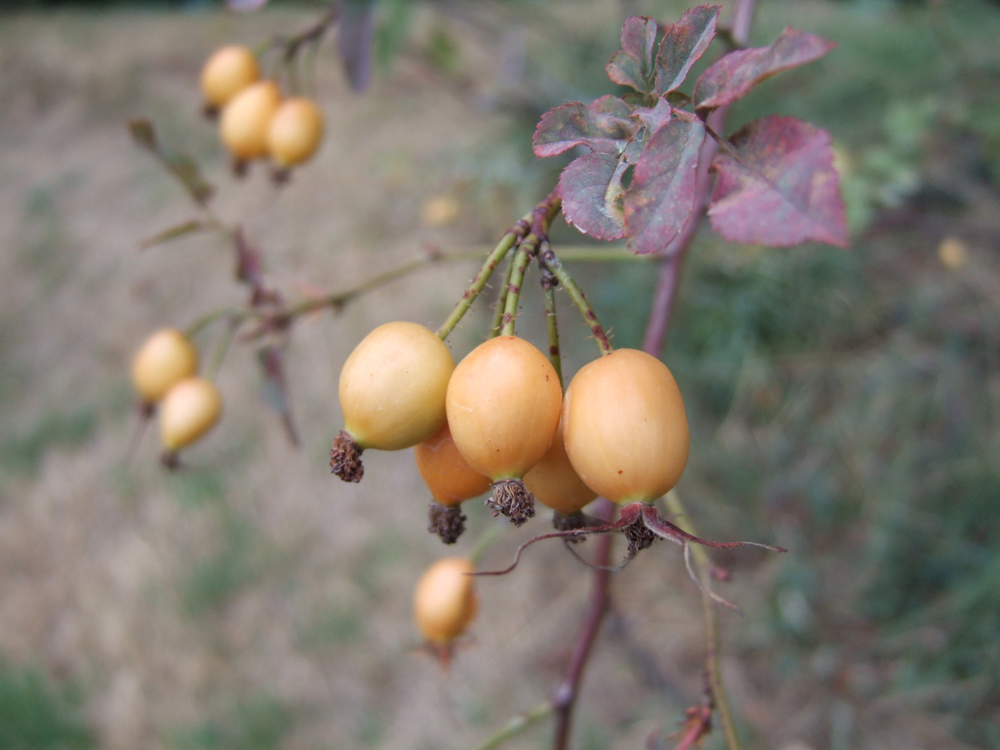 Rosa glauca rosehips